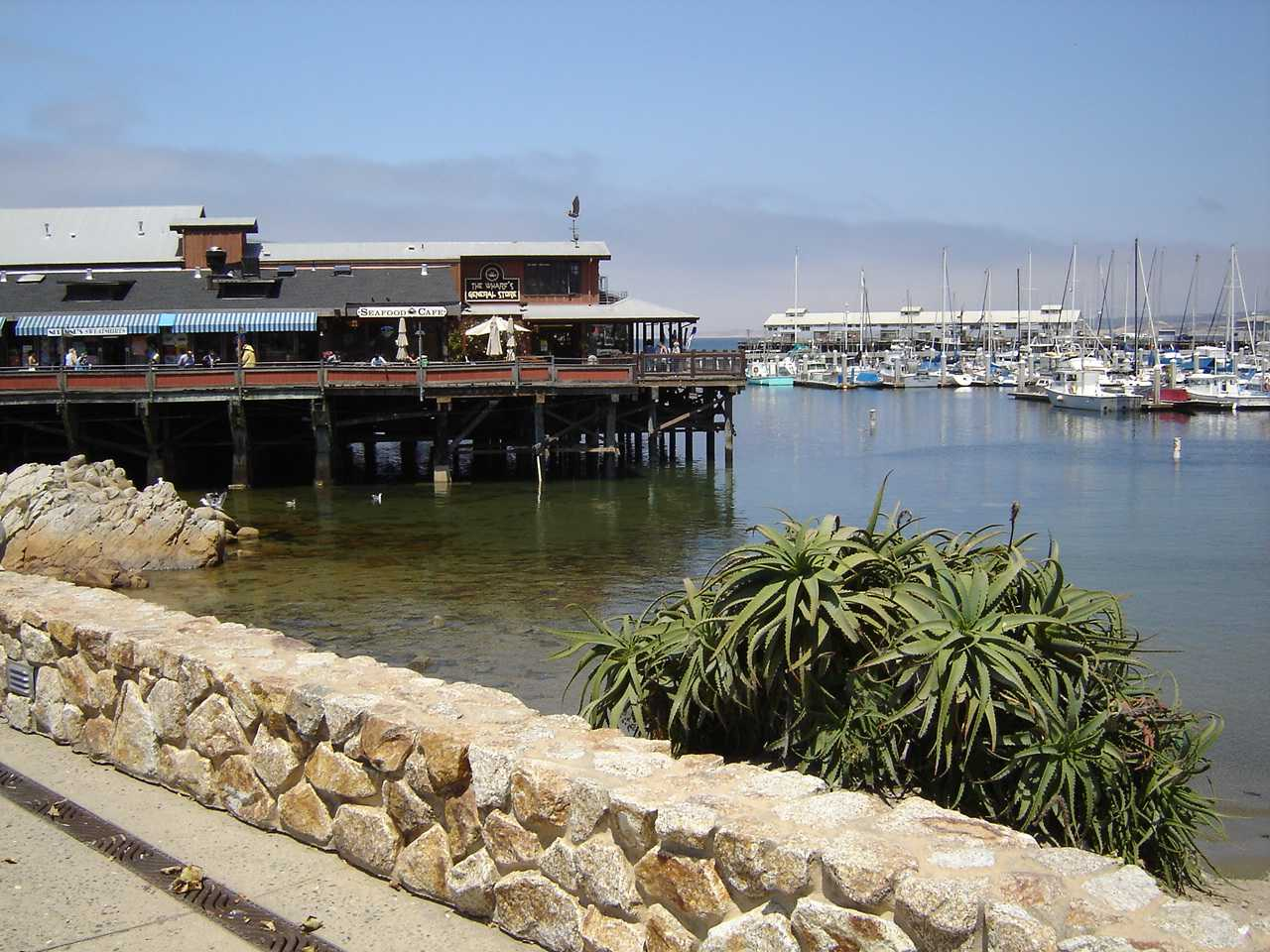 Monterey, CaliforniaMonterey Fishermans Wharf